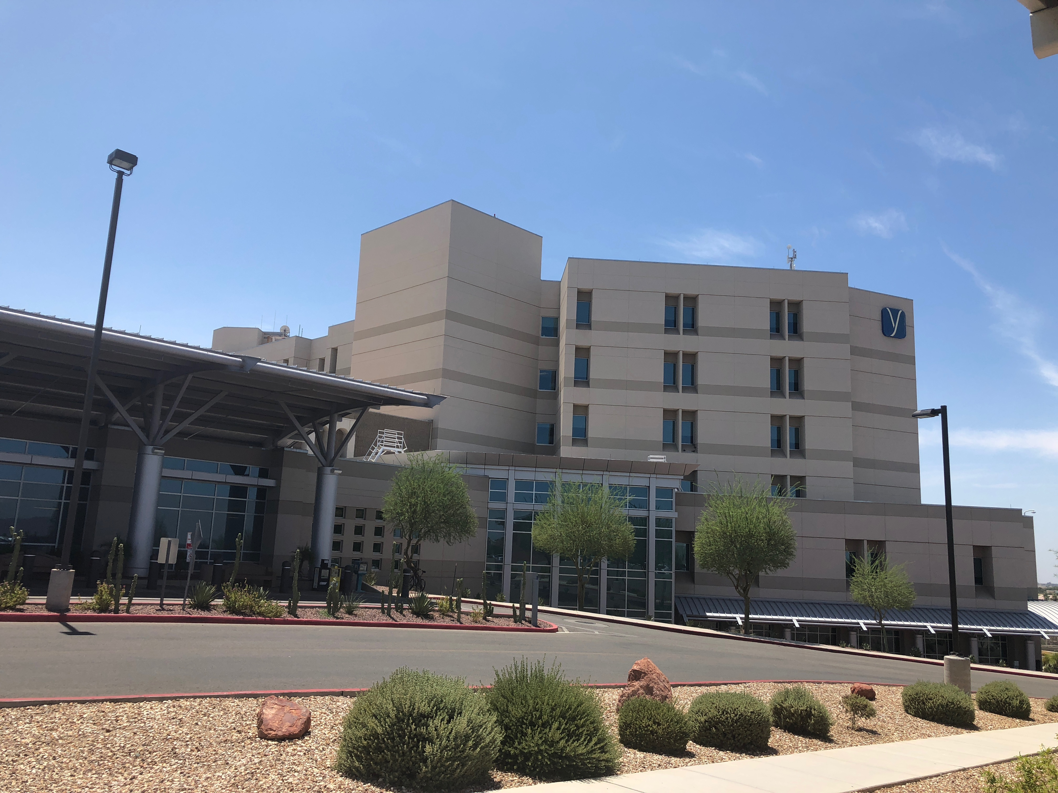 Hospital Tower at Yuma Regional Medical Center on 25/7/2018